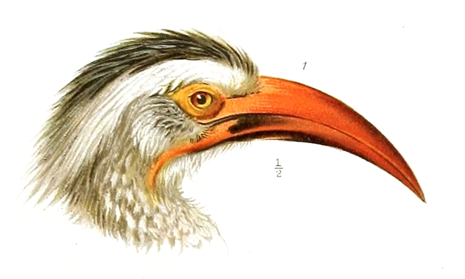 Bucerotidae 1 Alophius erythrorhynchus